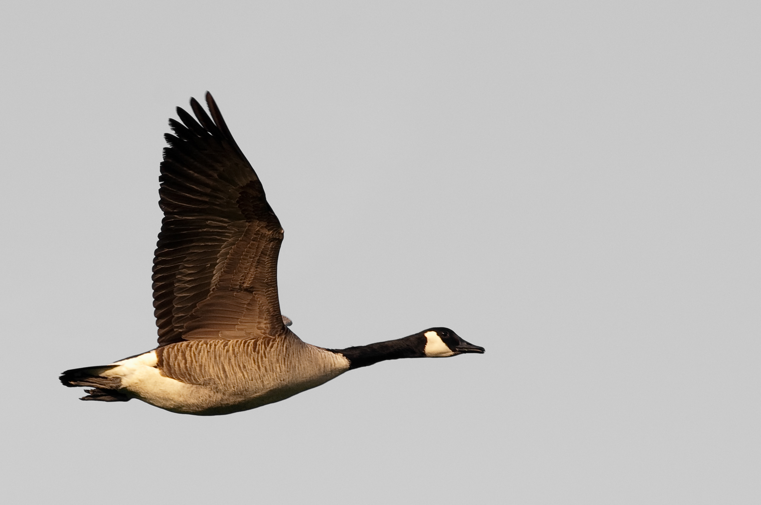 A Canada Goose flying in New Jersey, USA.